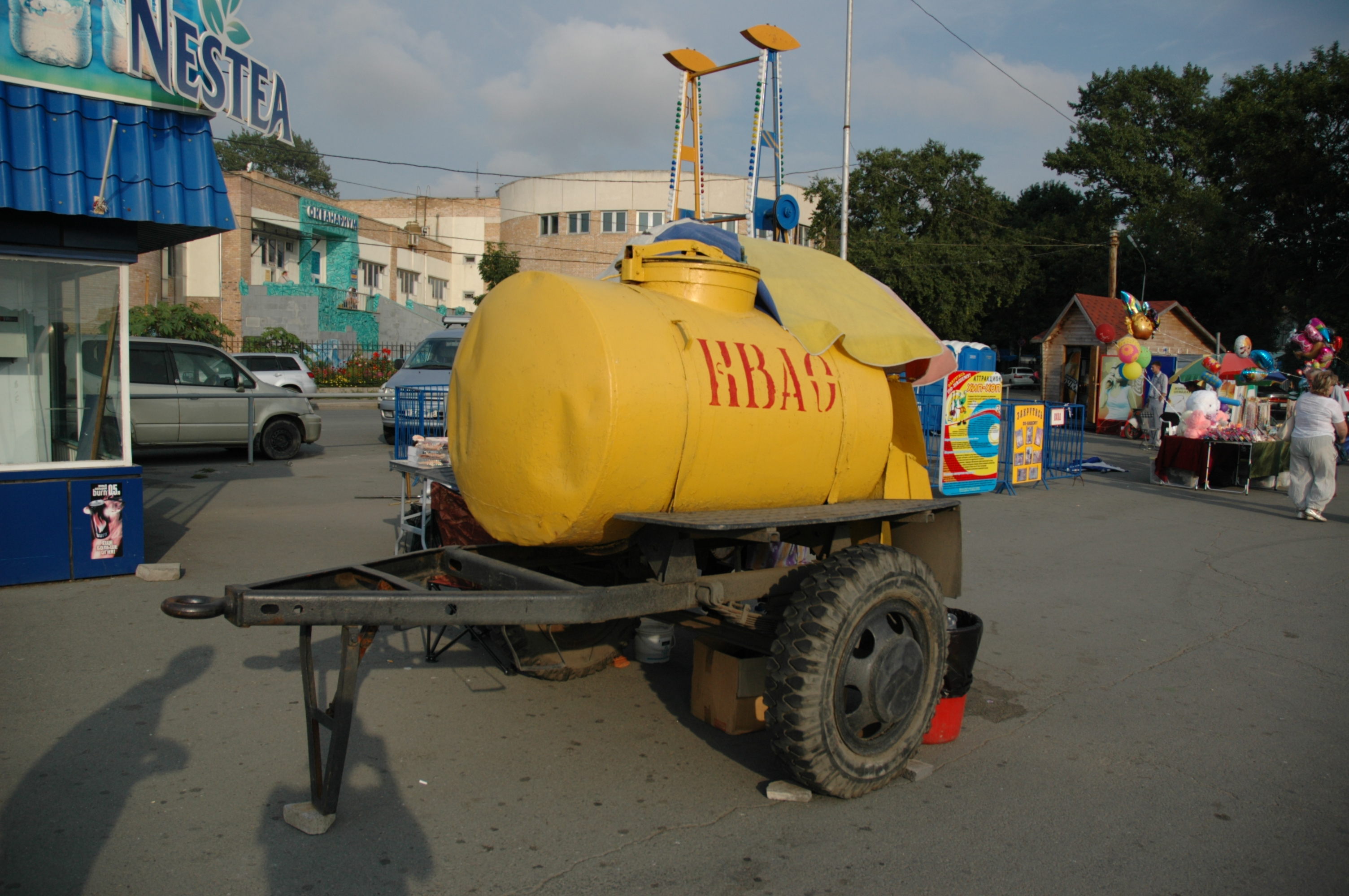 I might try and make some kvass. It's basically a weak beer made from fermented rye bread. In Russia they sell it from yellow tanks on the street. (Flickr)